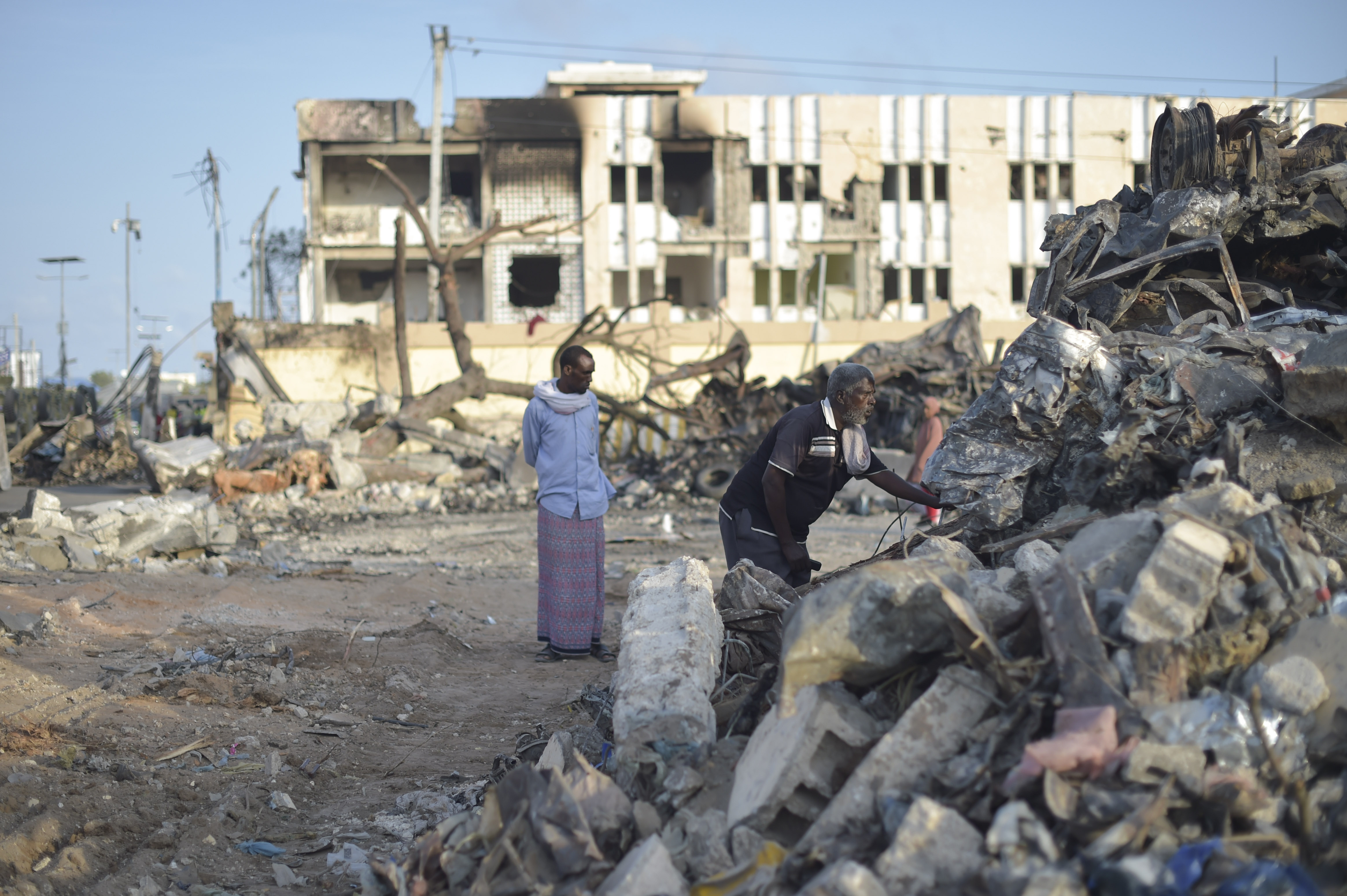 The African Union Mission in Somalia's Ugandan Contingent Commander, Brigadier General Kayanja Muhanga, visits the site of a VBIED attack conducted by the militant group al Shabaab in the Somali capital of Mogadishu on October 15, 2017